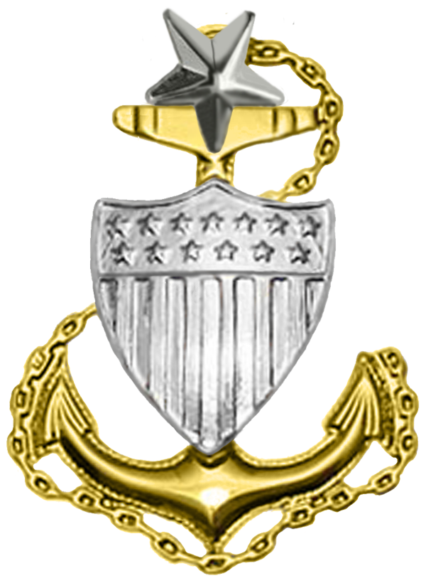 US Coast Guard Senior Chief Petty Officer Collar Device rate insignia